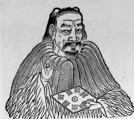 Fuxi, one of the Three Divine Rulers